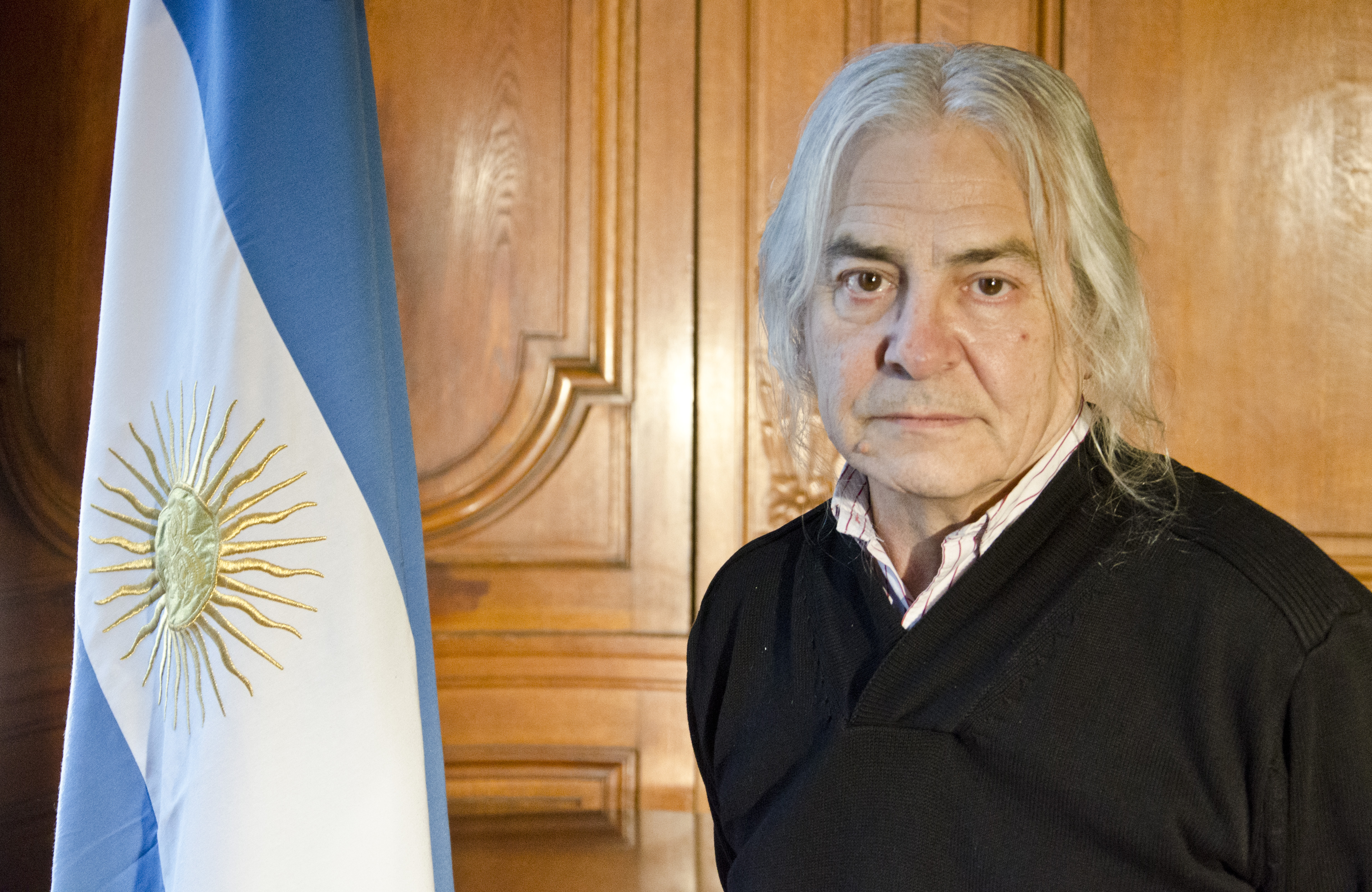 Retratos de las autoridades del Ministerio de Cultura de la Nación.En la foto: el director nacional de Artes, Rodolfo García.Foto: Augusto Starita / Ministerio de Cultura de la Nación.